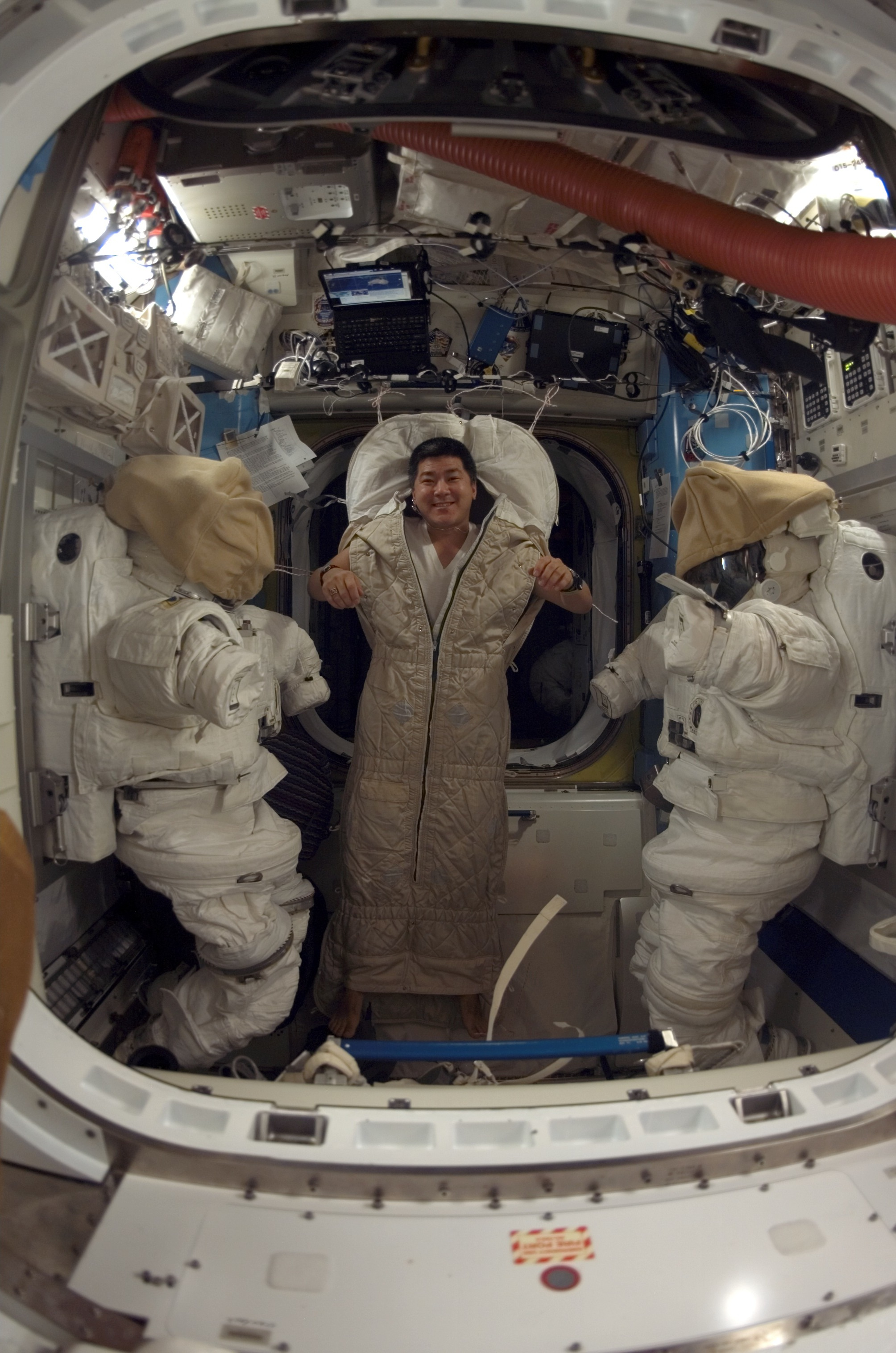 With most of his body tucked away in a sleeping bag, astronaut Daniel Tani, Expedition 16 flight engineer, poses for a photo near two extravehicular mobility unit (EMU) spacesuits in the Quest Airlock of the International Space Station.